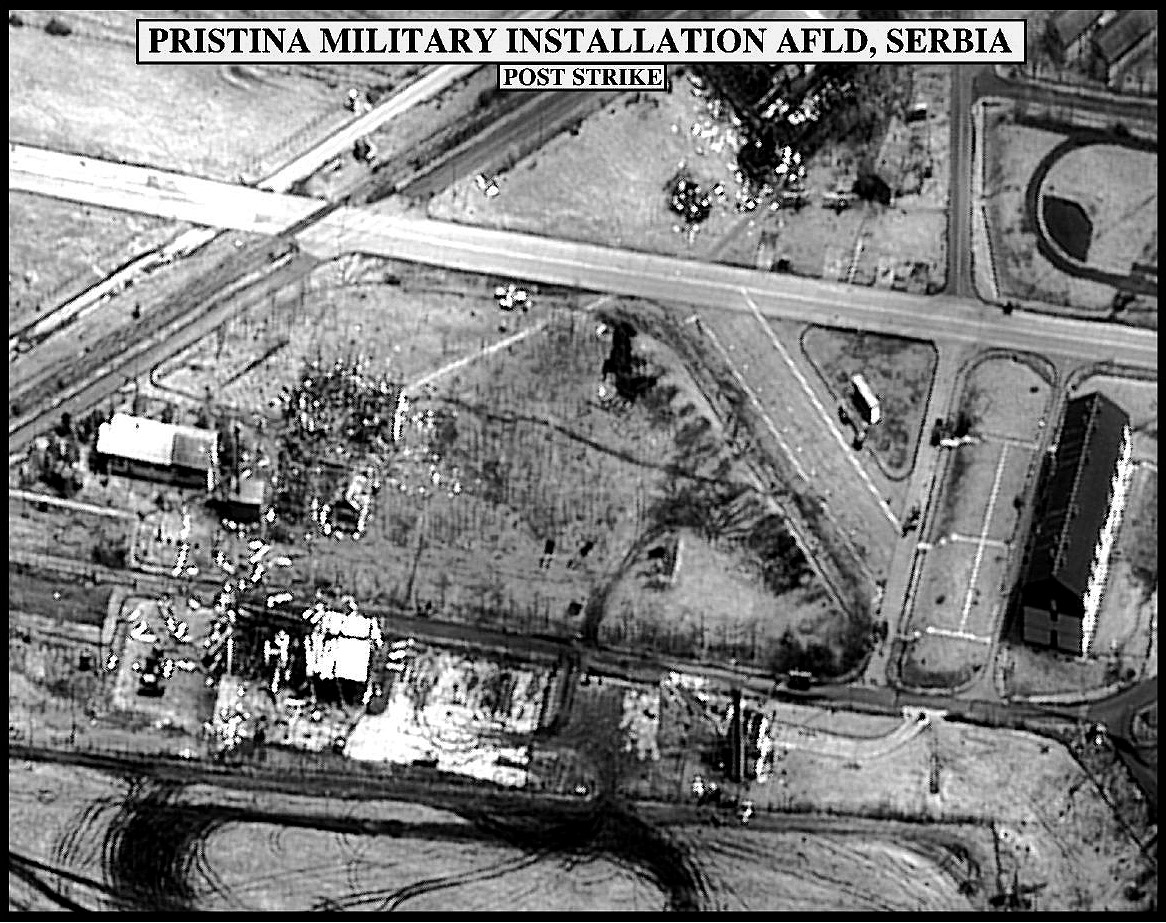 Post-strike bomb damage assessment photograph of the Pristina Military Installation Airfield, Serbia, used by Joint Staff Vice Director for Strategic Plans and Policy Maj. Gen. Charles F. Wald, U.S. Air Force, during a press briefing on NATO Operation Allied Force in the Pentagon on April 22, 1999